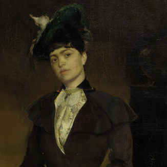 Inez Eleanor Bate Addams by Clifford Addams in 1906 - She ran Académie_Carmen for Whistler